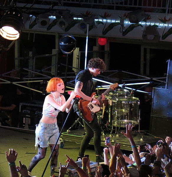 "PARAHOY! Cruise" sailing from Miami to Great Stirrup Cay and back, where Paramore performed two shows on board the Norwegian Pearl along with Tegan & Sara and other bands.